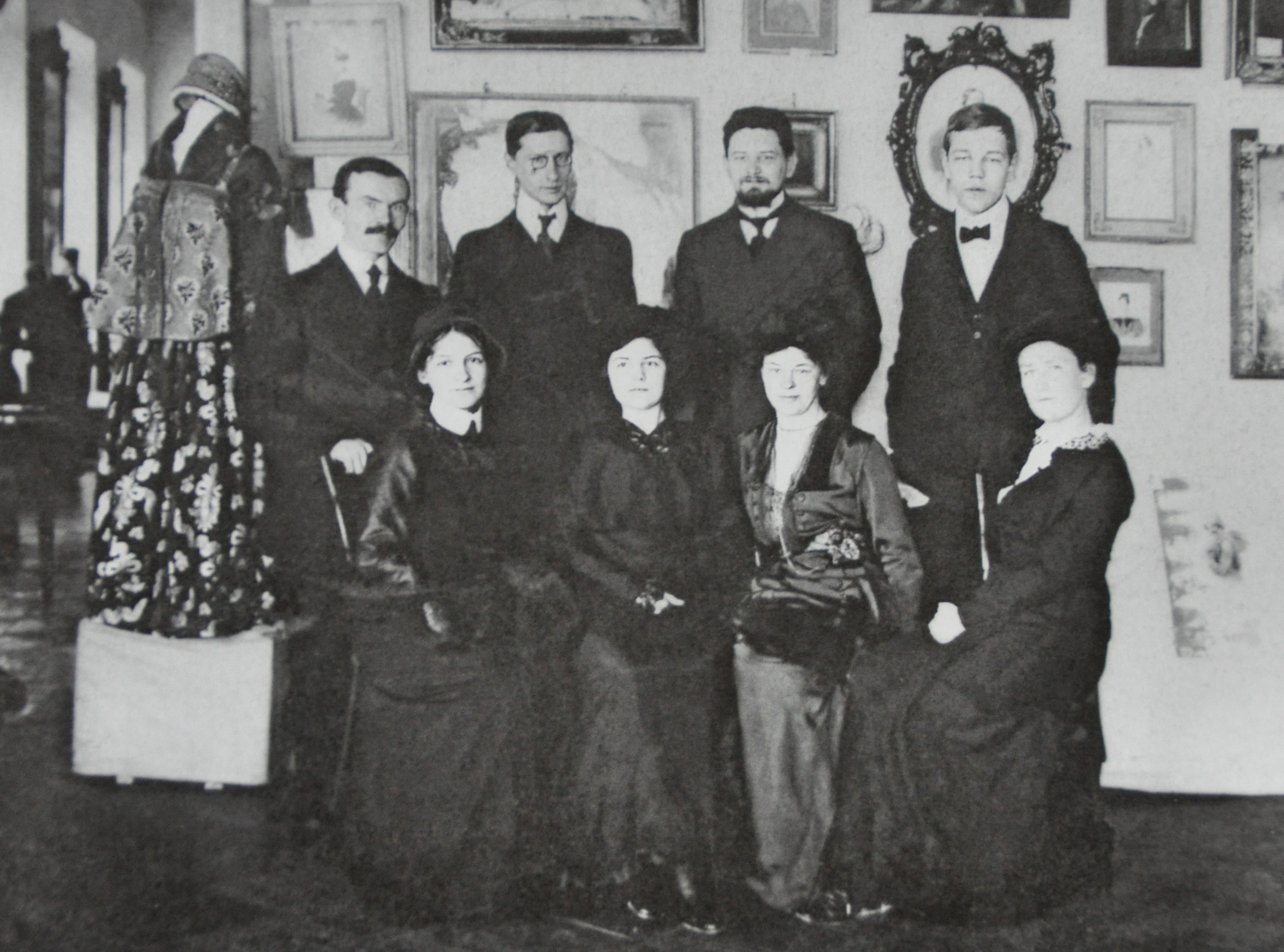 Foto of members of the Northern Society of Fine Art Lovers at their exibition in 1913-1914. Ivan Fedyshin, left, standing.